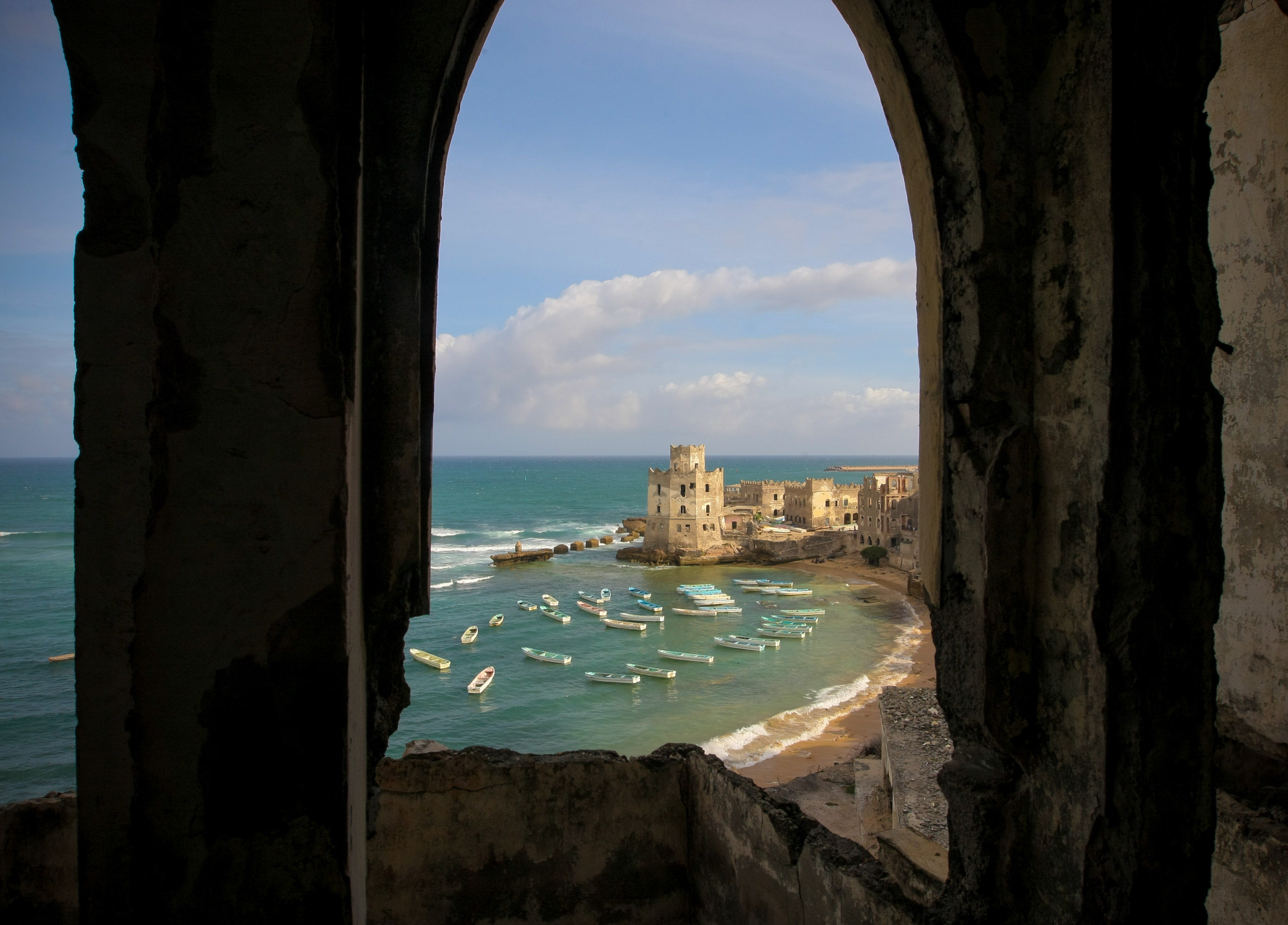 View of Mogadishu fishing harbour 06 August 2012, from the Aruba Hotel in the Somali capital Mogadishu. August 06 is the one-year anniversary marking the date that Al-Qaeda-affiliated extremist group Al Shabaab withdrew from fixed positions in Mogadishu after having steadily lost territory to forces of the Transitional Federal Government (TFG) backed by troops from the African Union Mission in Somalia (AMISOM), ending their draconian stranglehold on the capital and its population. In the last 12 months, residents of Mogadishu have enjoyed the longest period of relative peace in their city for 20 years, with re-building and re-generation work taking place all over the city and businesses and a semblance of normal daily life returning to the now busy streets of the war-shattered Horn of Africa capital. AU-UN IST PHOTO / STUART PRICE.